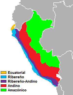 Dialectal map of Perú.